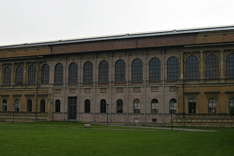 Alte Pinakothek in Munich